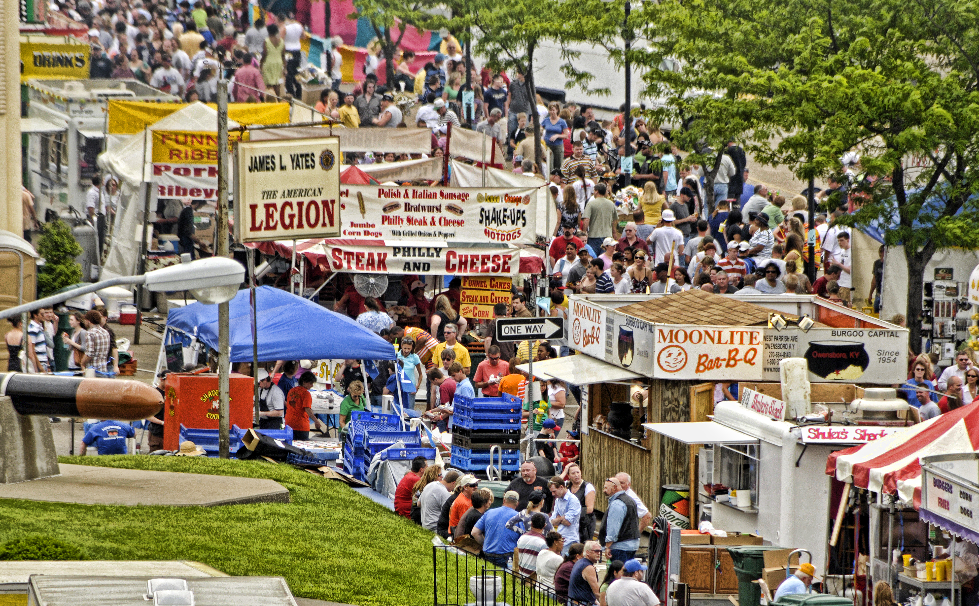 Crowd during the Owensboro BBQ Festival.